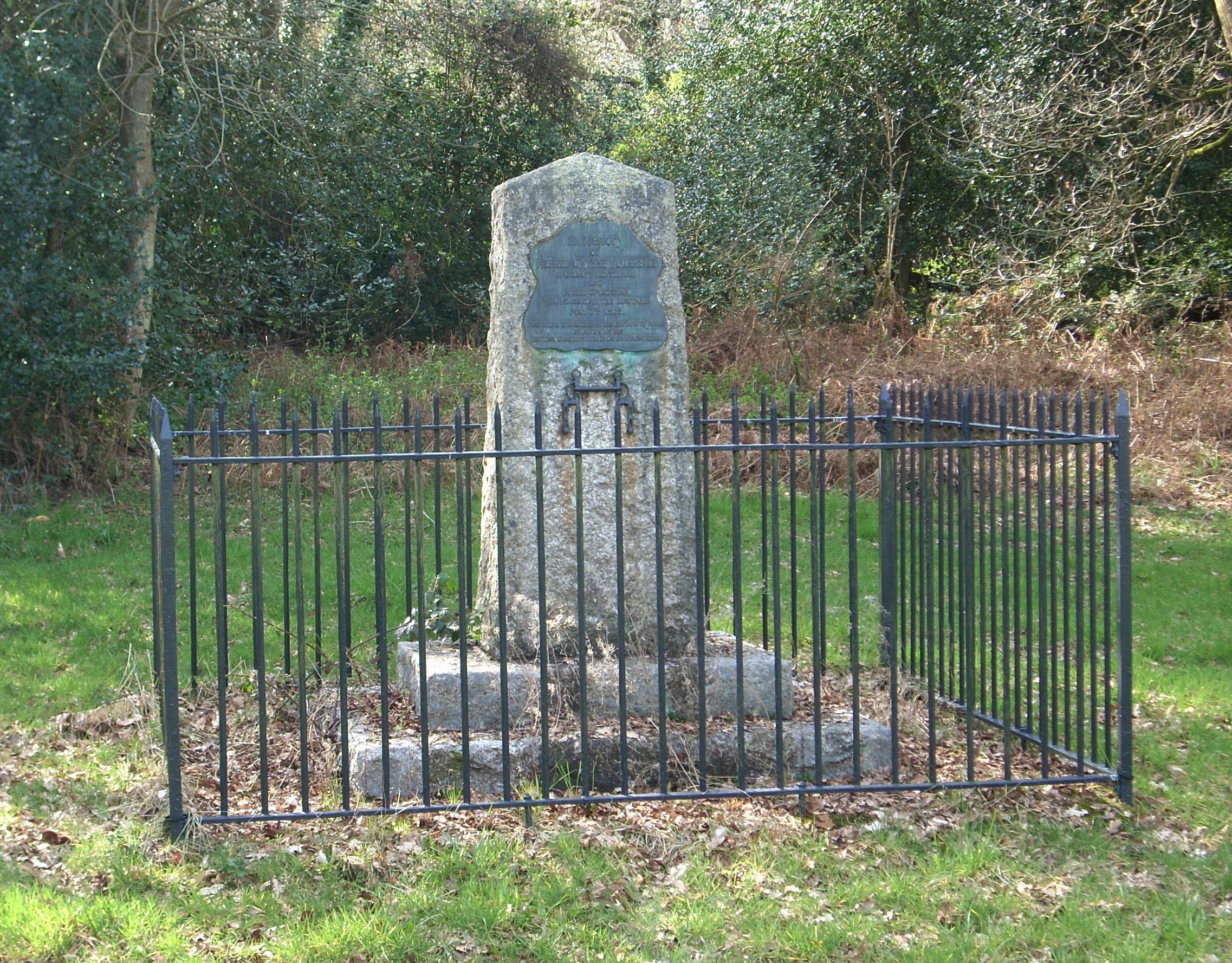 Memorial to Alfred Gwynne Vanderbilt A memorial on the A24 London to Worthing Road in Holmwood, just south of Dorking. The inscription reads, "In Memory of Alfred Gwynne Vanderbilt a gallant gentleman and a fine sportsman who perished in the Lusitania May 7th 1915. This stone is erected on his favourite road by a few of his British coaching friends and admirers"